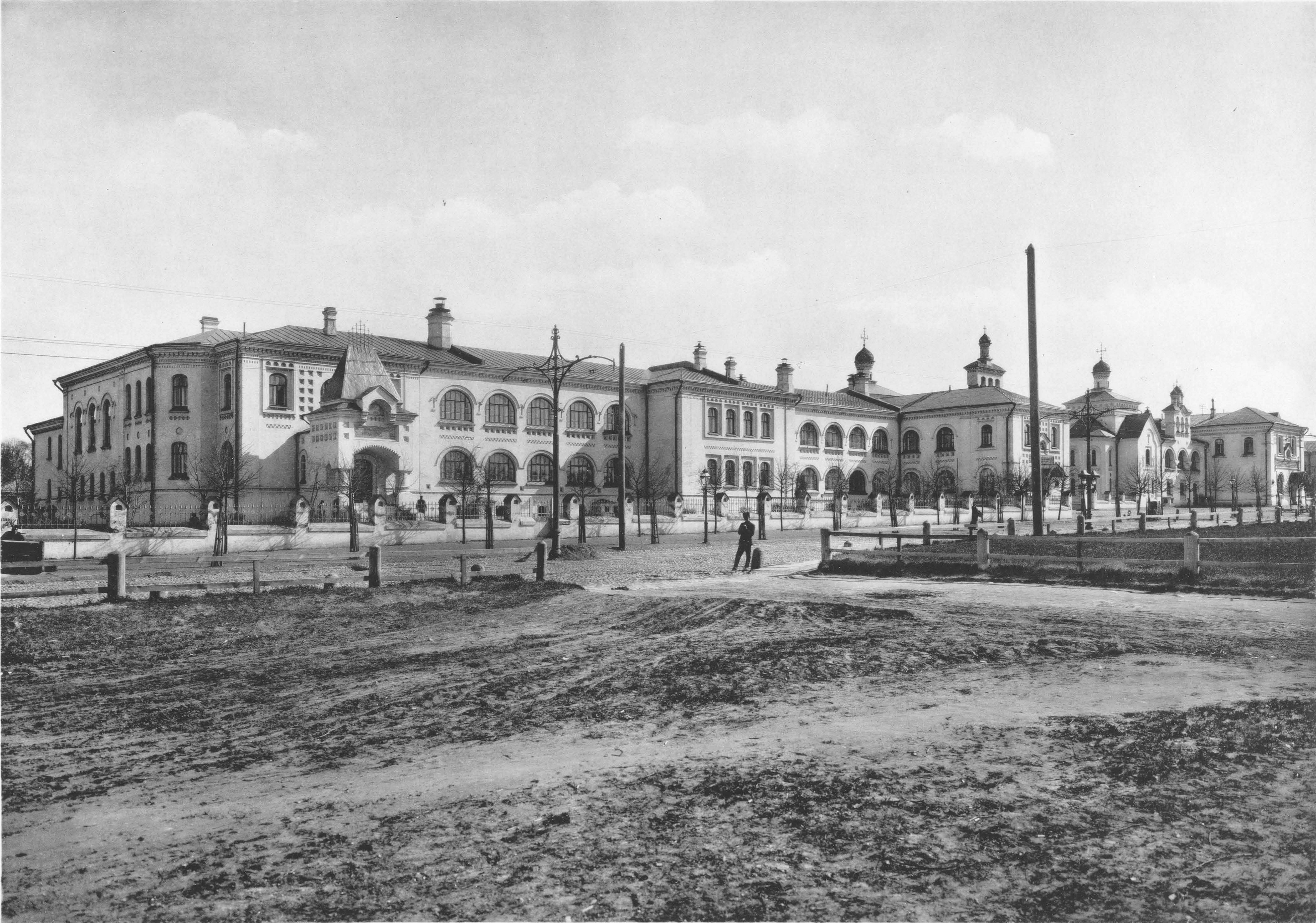 Medvednikov Hospital in Moscow, 1913 or ealier.